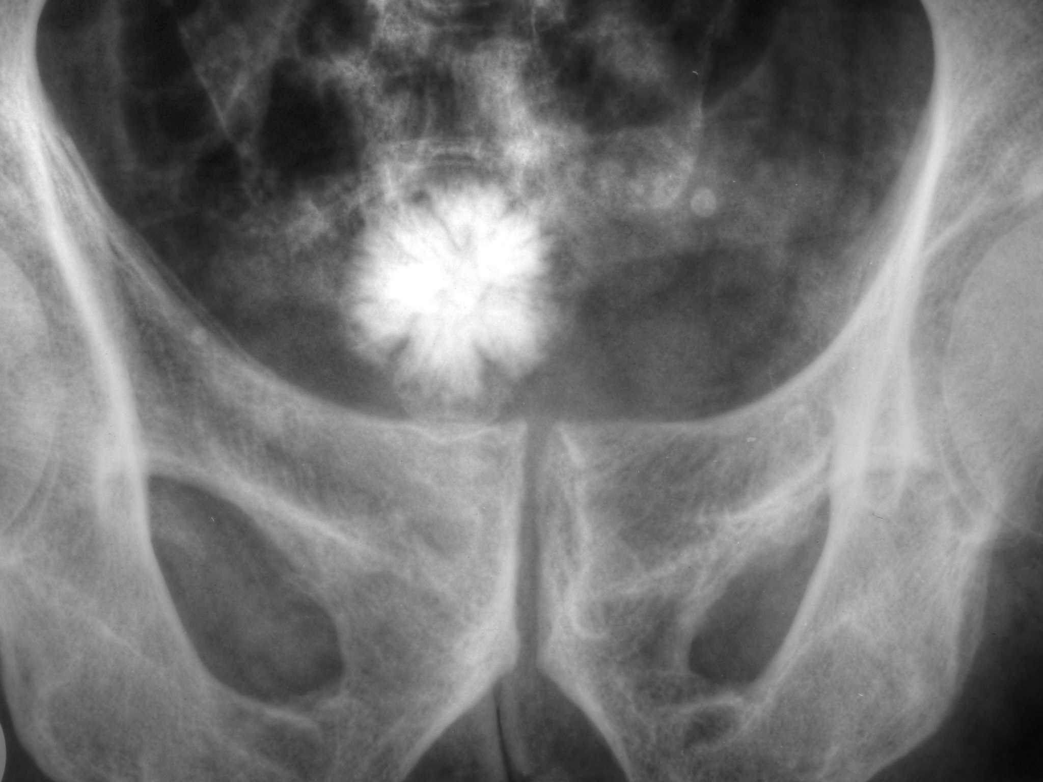 Large stellate (star shaped) urinary bladder stone